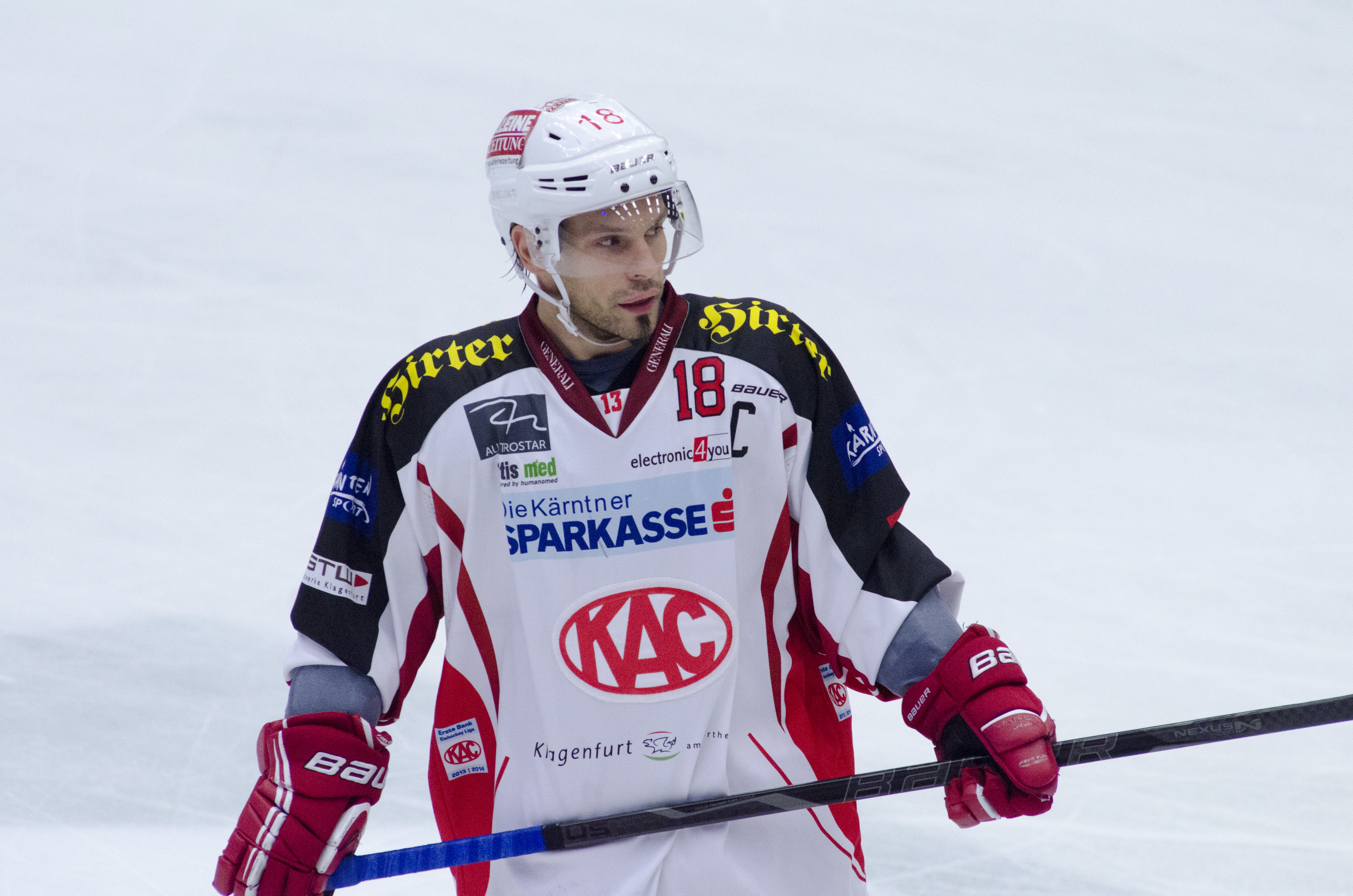 Thomas Koch